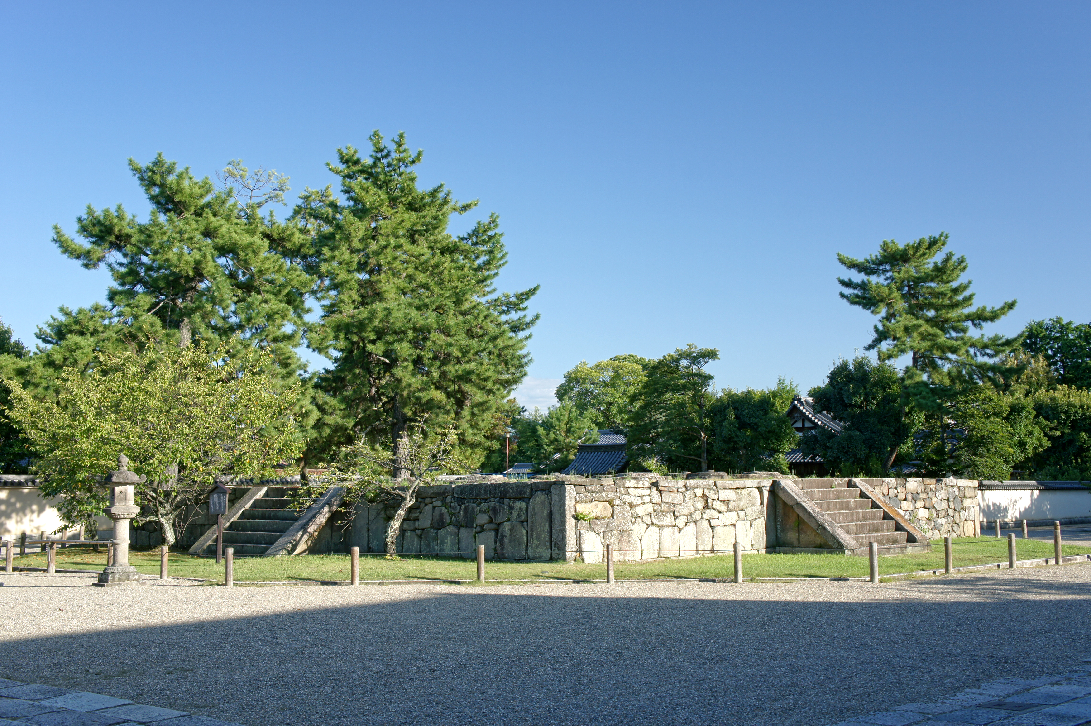 Saidai-ji in Nara, Nara prefecture, Japan.